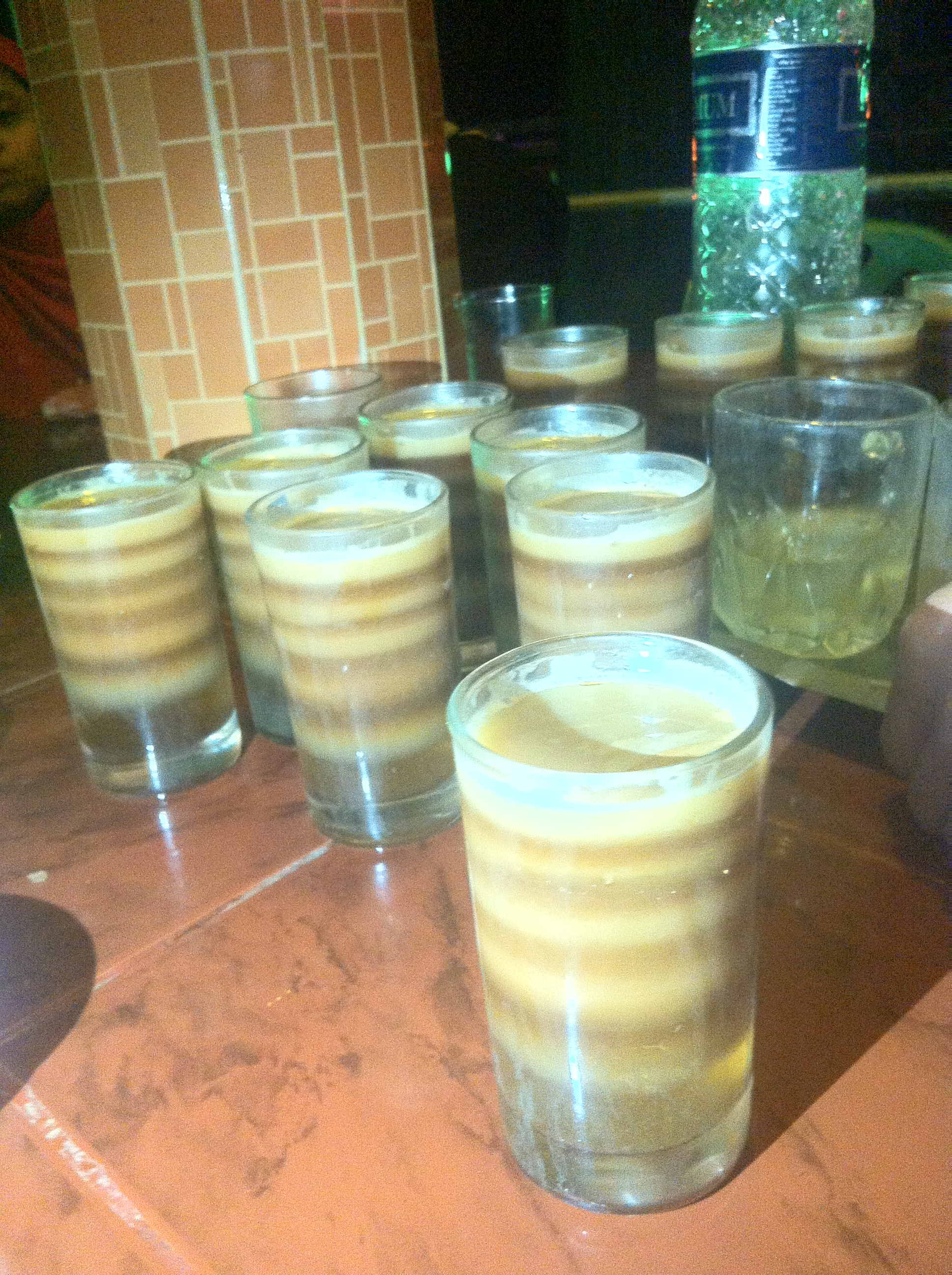 10 layer tea (specially known as Seven Color Tea), Nilkonto. Srimongol